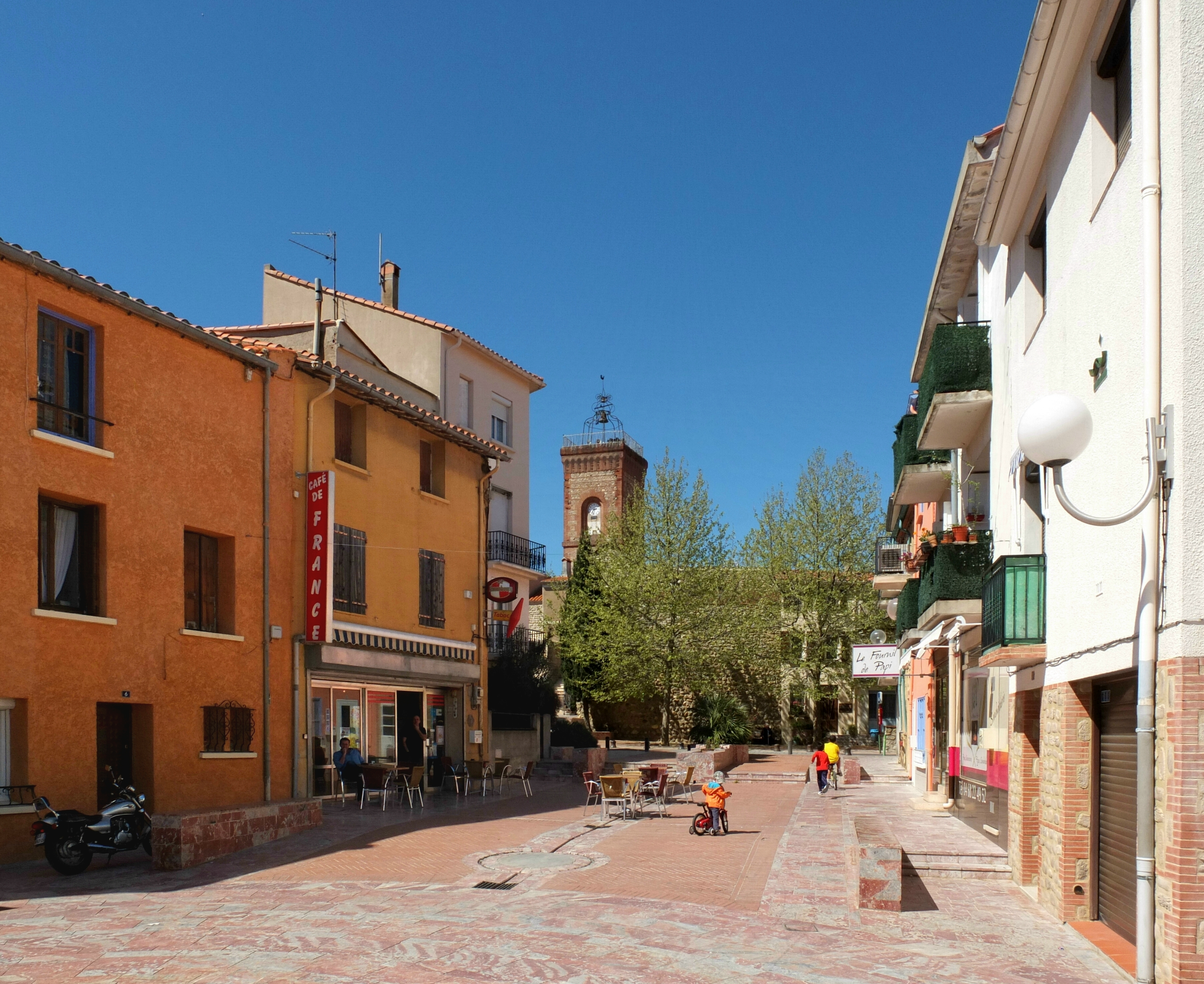 Town center of Palau-del-Vidre, Roussillon, France